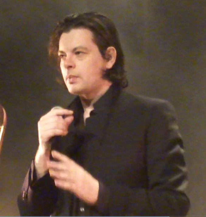 Benjamin Biolay concert in Thonex(GE), Switzerland